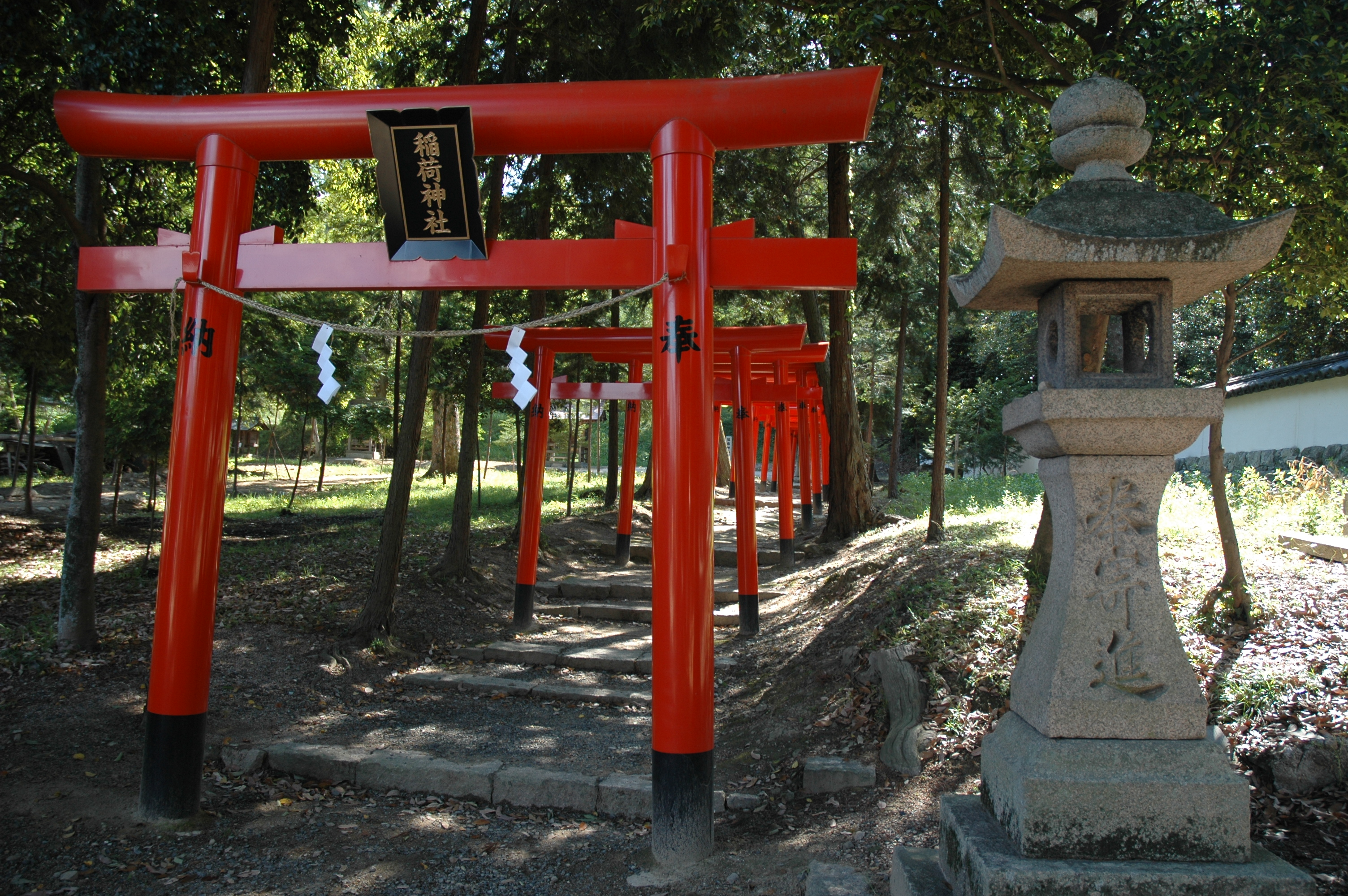 the attached shrine,Inari-jinja